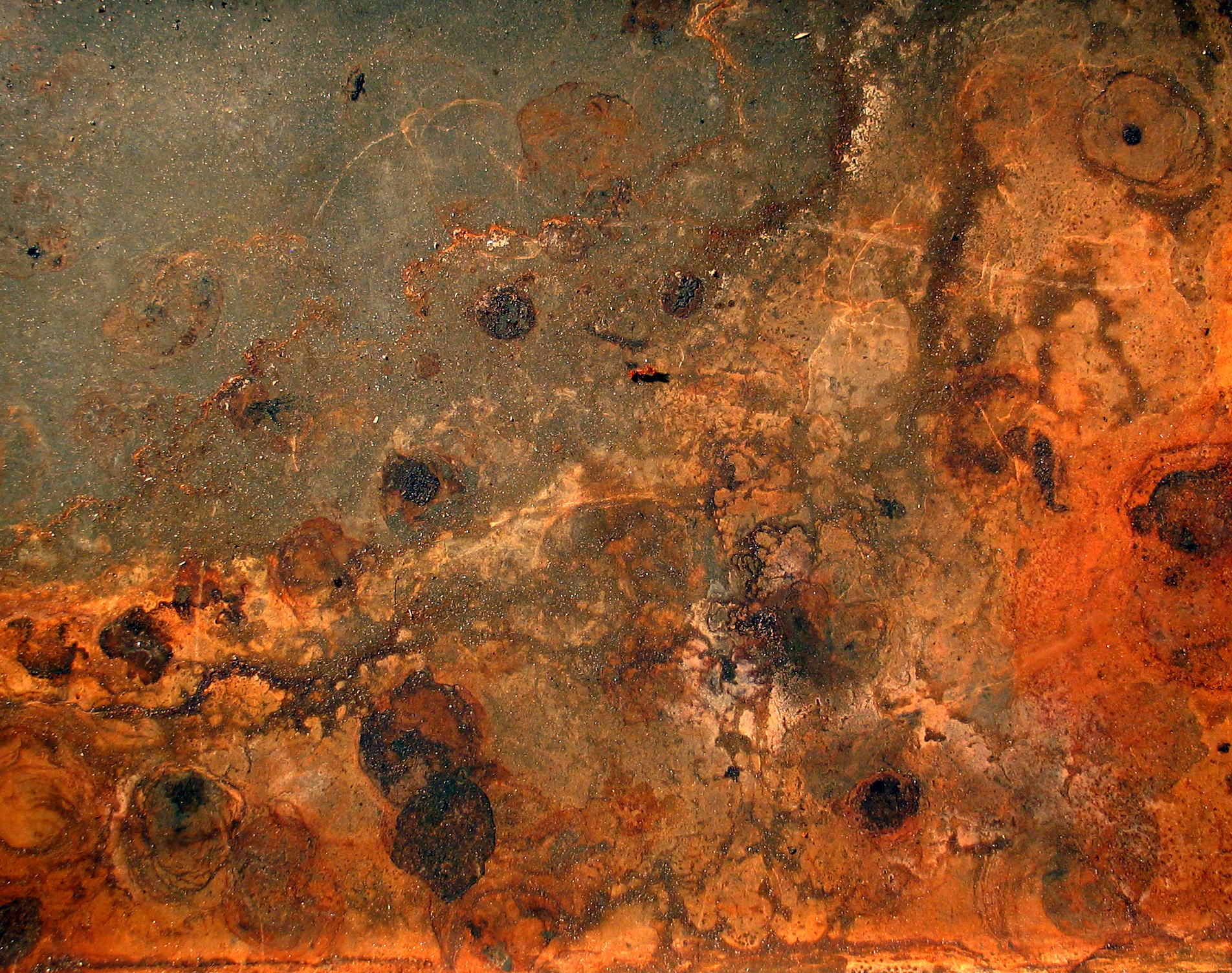 Rust and dirt on a baking plate.